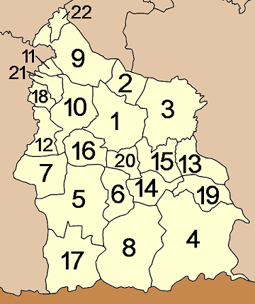 Map of Thailand showing Sisaket province with the districts (Amphoe) numbered. Mueang Si Sa Ket (อำเภอเมืองศรีสะเกษ) Yang Chum Noi (อำเภอยางชุมน้อย) Kanthararom (อำเภอกันทรารมย์) Kantharalak (อำเภอกันทรลักษ์) Khukhan (อำเภอขุขันธ์) Phrai Bueng (อำเภอไพรบึง) Prang Ku (อำเภอปรางค์กู่) Khun Han (อำเภอขุนหาญ) Rasi Salai (อำเภอราษีไศล) Uthumphon Phisai (อำเภออุทุมพรพิสัย) Bueng Bun (อำเภอบึงบูรพ์) Huai Thap Than (อำเภอห้วยทับทัน) Non Khun (อำเภอโนนคูณ) Si Rattana (อำเภอศรีรัตนะ) Nam Kliang (อำเภอน้ำเกลี้ยง) Wang Hin (อำเภอวังหิน) Phu Sing (อำเภอภูสิงห์) Mueang Chan (อำเภอเมืองจันทร์) Benchalak (อำเภอเบญจลักษ์) Phayu (อำเภอพยุห์) Pho Si Suwan (อำเภอโพธิ์ศรีสุวรรณ) Sila Lat (อำเภอศิลาลาด)